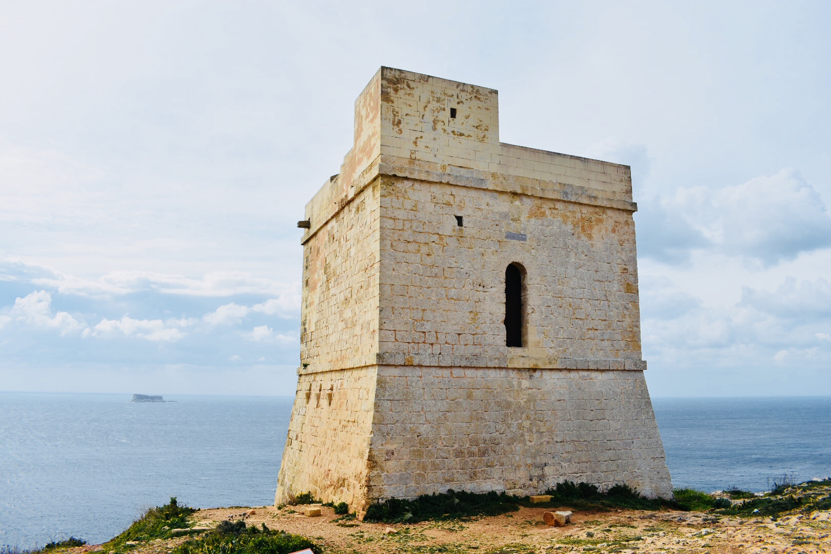 Ħamrija Tower This media is about Maltese cultural property with inventory number 01387.